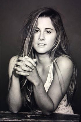 Gisela Pulido portrait